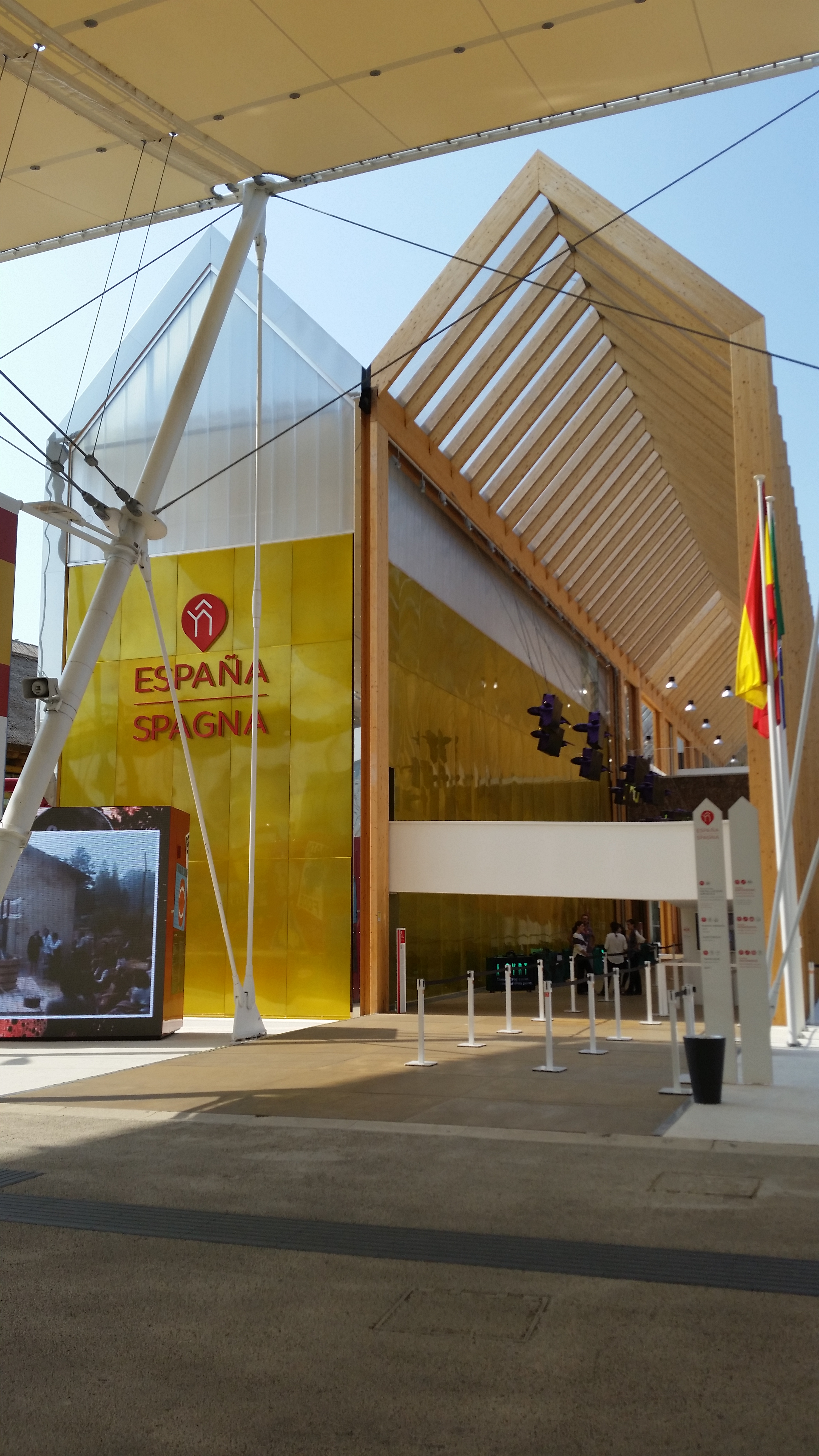 Pavilion of the Expo 2015 located in Milano (Italy)